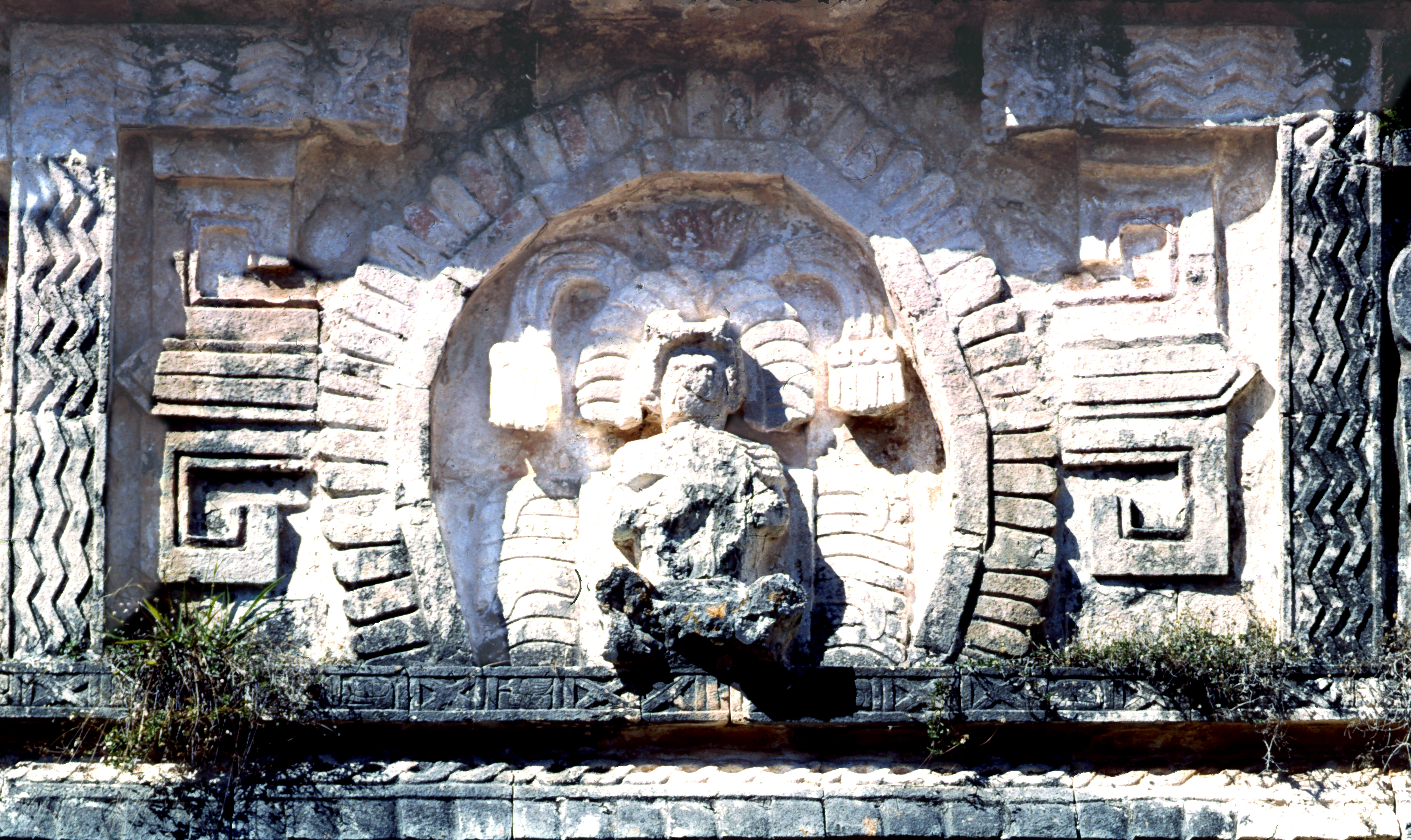 Chichen Itza, Yucatan, Mexico: Monjas, Annex, Detail of east side